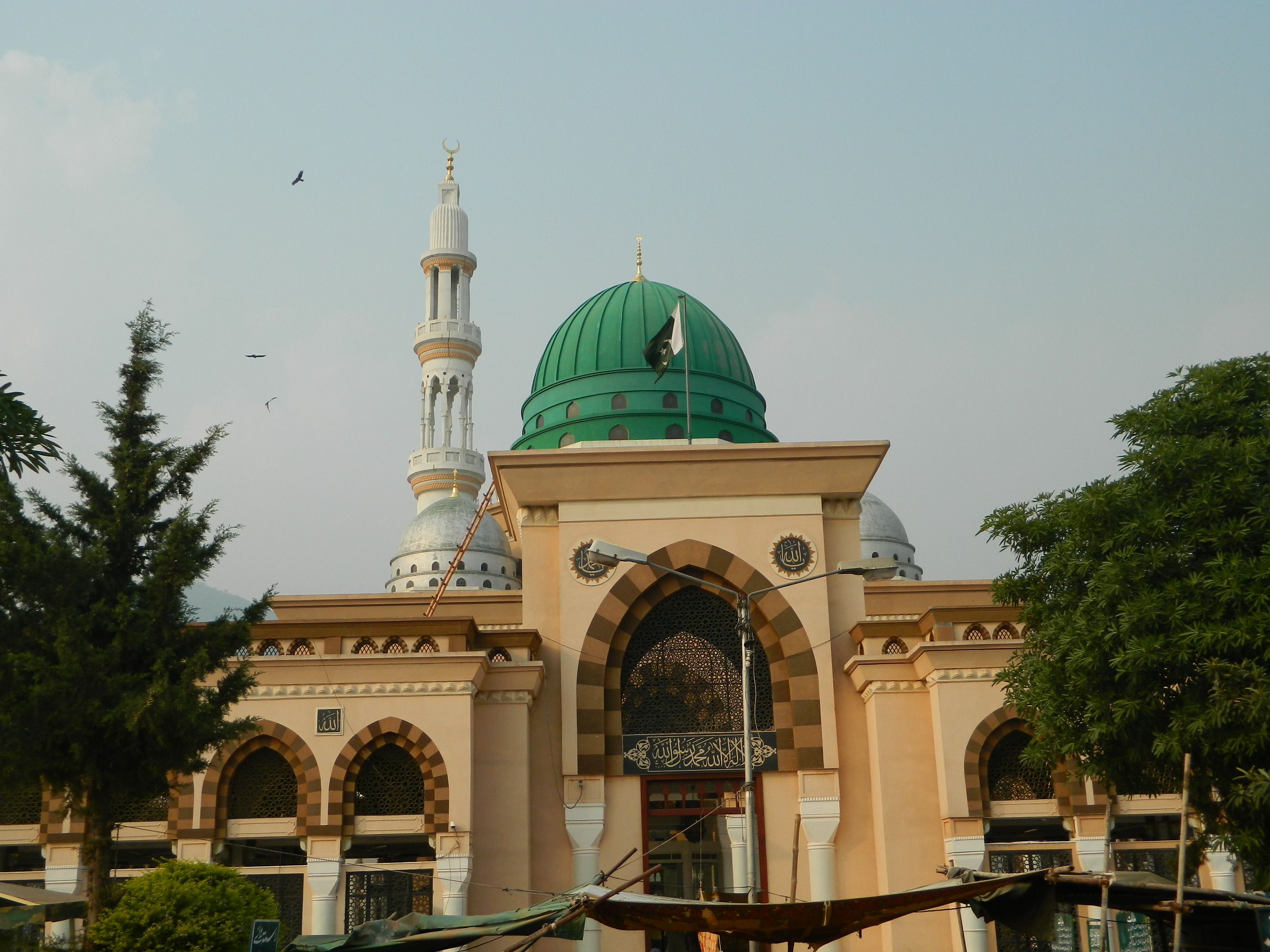 Bari Imam This is a photo of a monument in Pakistan identified as the ICT-6